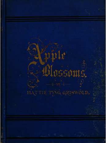 "Apple-blossoms", by Hattie Tyng Griswold